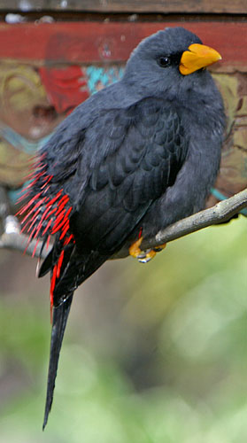 Finch-billed Myna (Scissirostrum dubium), Lowry Park Zoo, Tampa, Florida